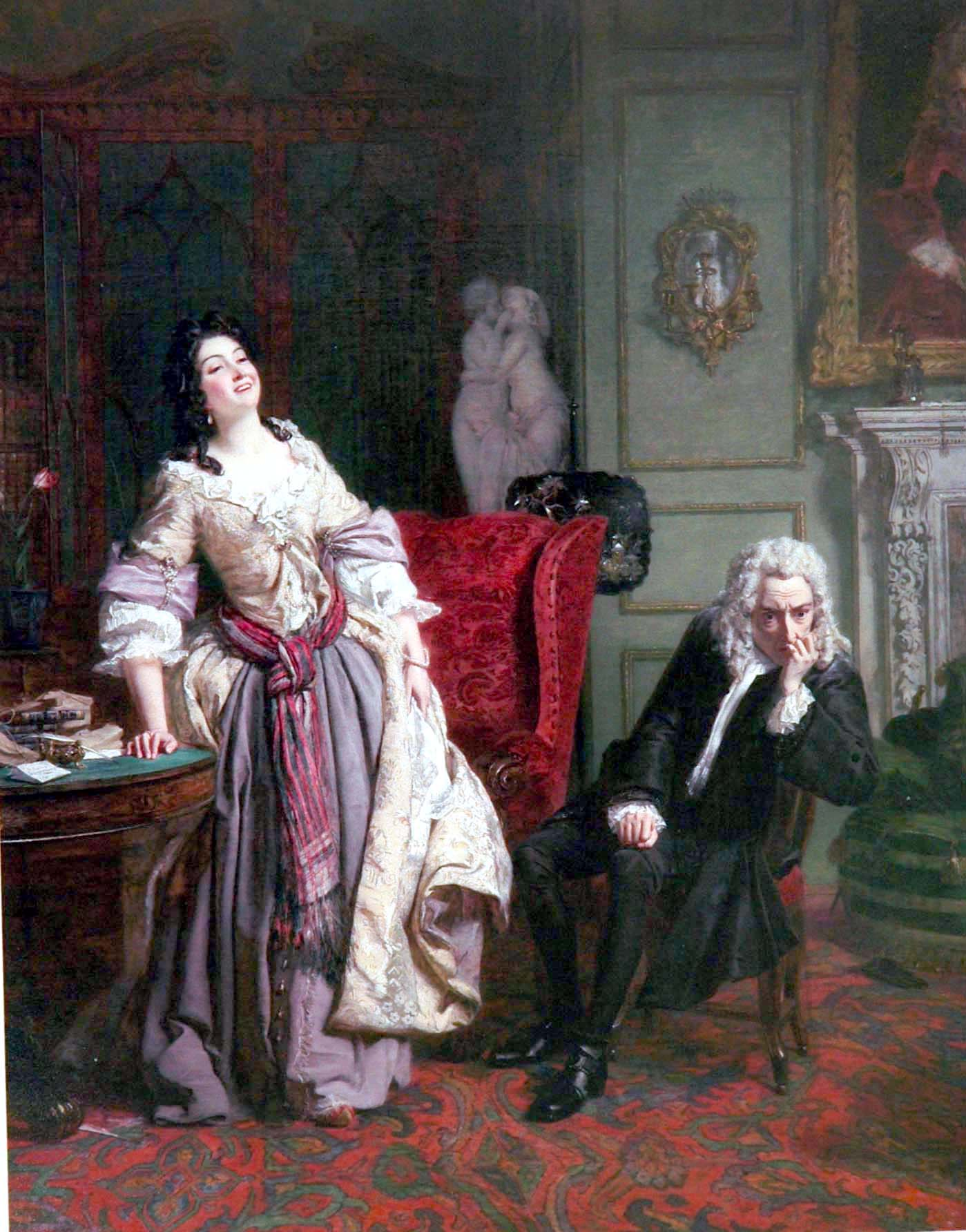 "This later painting by William Powell Frith depicts the moment after Alexander Pope declared his ardent love to Lady Mary. She has burst into a fit of laugher. He sits in pain, his pride hurt. William Powell Frith, Pope makes love to Lady Mary Montagu, 1852. Print from oil on canvas original at Auckland City Art Gallery."